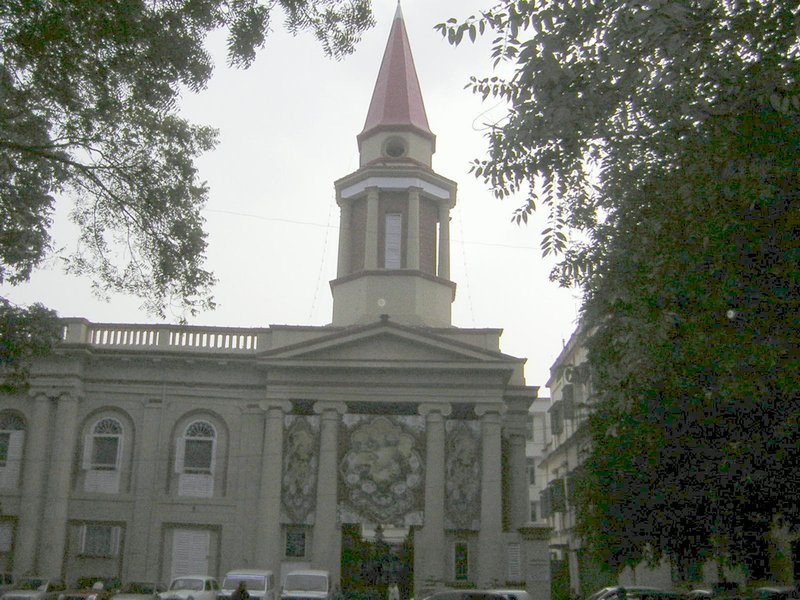 Image of Saint Thomas Church Of Kolkata.